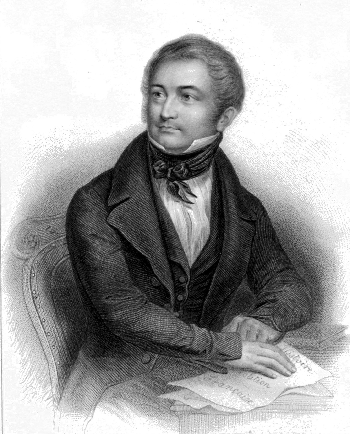 Adolphe Thiers